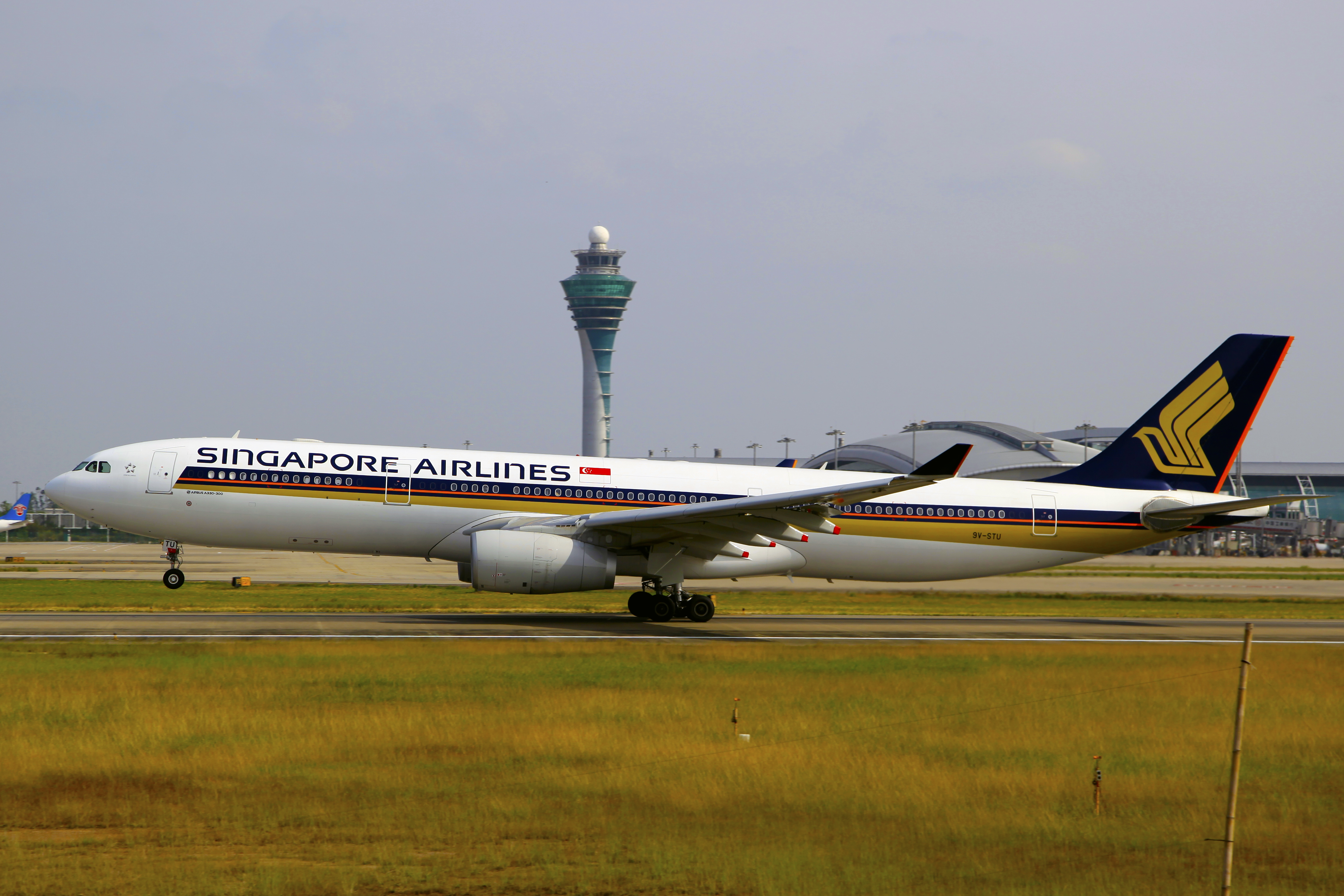 9V-STU | Singapore Airlines | Airbus A330-343X | Guangzhou Baiyun International Airport [CAN]